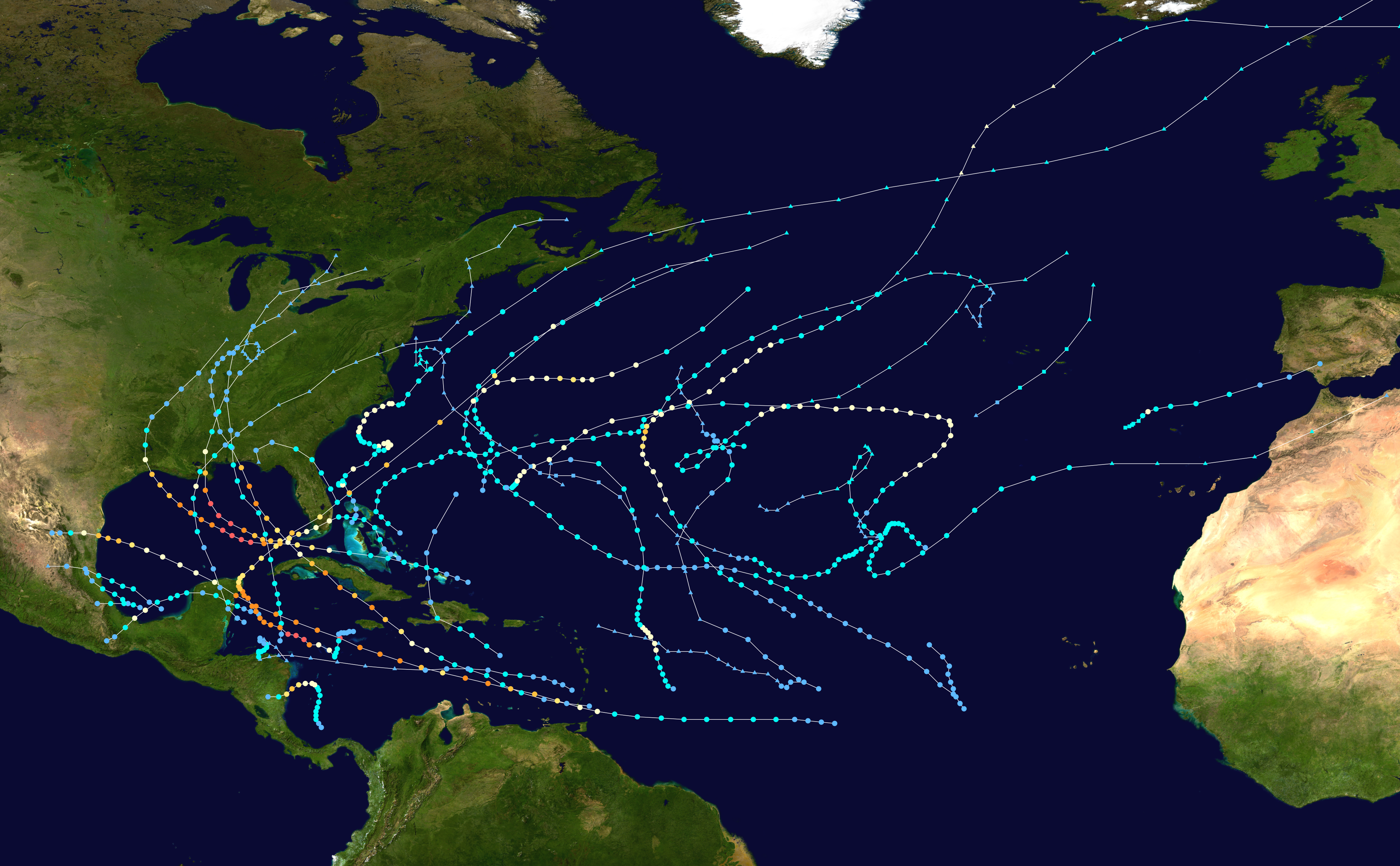 This map shows the tracks of all tropical cyclones in the 2005 Atlantic hurricane season. The points show the location of each storm at 6-hour intervals. The colour represents the storm's maximum sustained wind speeds as classified in the Saffir-Simpson Hurricane Scale (see below), and the shape of the data points represent the type of the storm. Saffir–Simpson scale Tropical depression≤38 mph≤62 km/h Category 3111–129 mph178–208 km/h Tropical storm39–73 mph63–118 km/h Category 4130–156 mph209–251 km/h Category 174–95 mph119–153 km/h Category 5≥157 mph≥252 km/h Category 296–110 mph154–177 km/h Unknown Storm type Tropical cyclone Subtropical cyclone Extratropical cyclone / Remnant low / Tropical disturbance / Monsoon depression